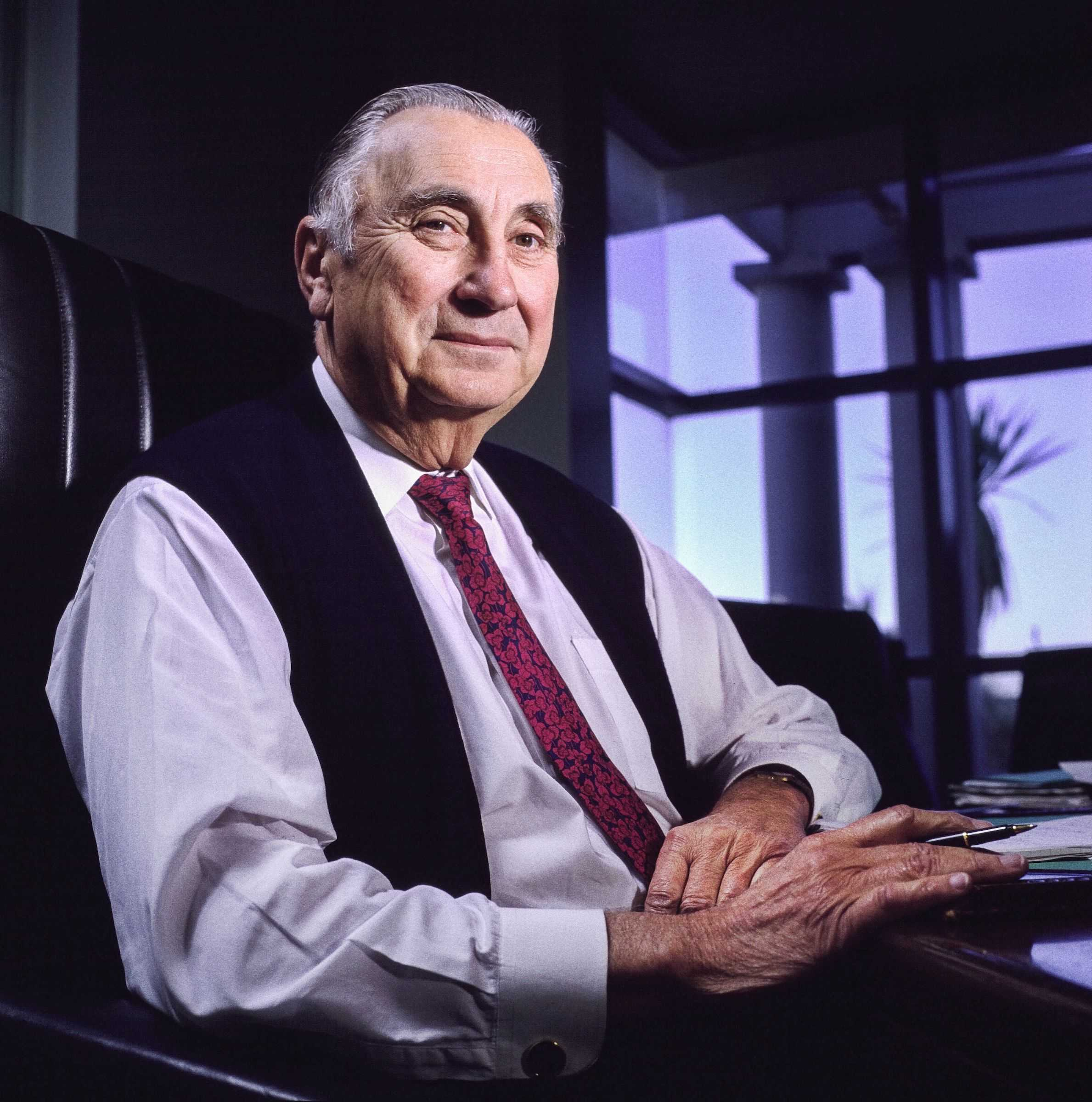 Tristan Antico Portrait